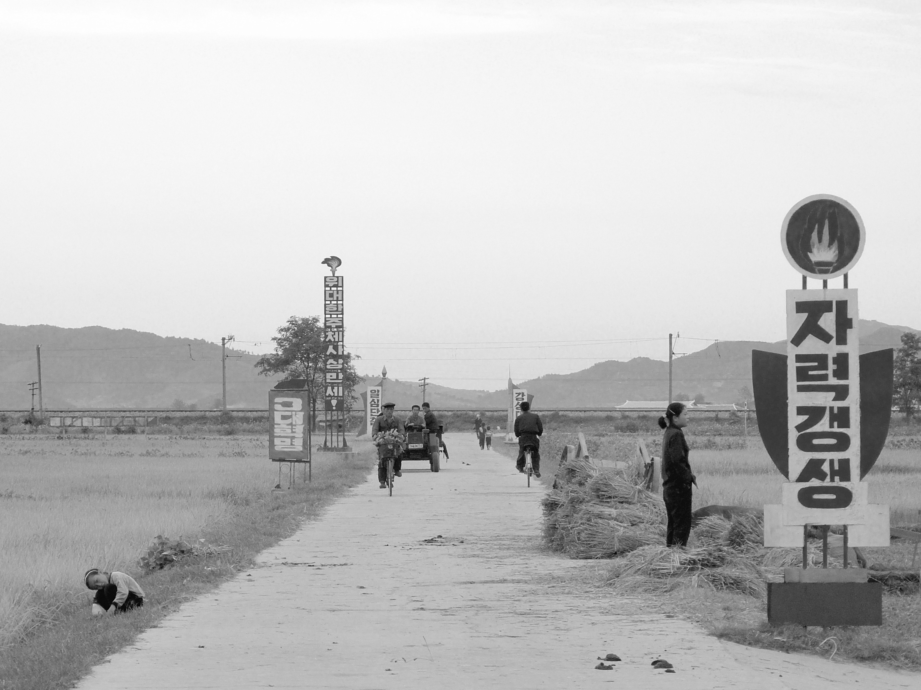 Situated on the outskirts of Wonsan, the Chonsam Cooperative Farm is possibly the only place in the country where foreign visitors are allowed into a working farm. While it is indeed a working farm, it does feel a little bit contrived.